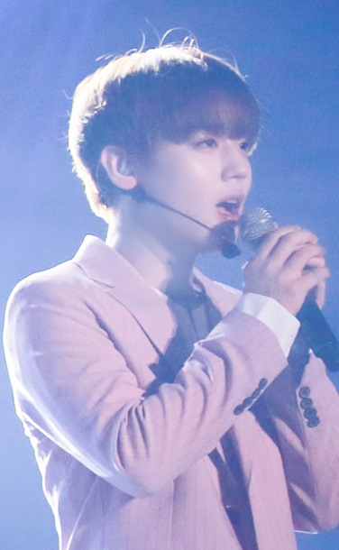 170807 Wannaone Premiere Show Concert